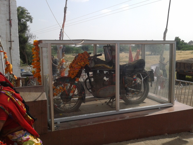 taken at Om Bana sthan, chotila